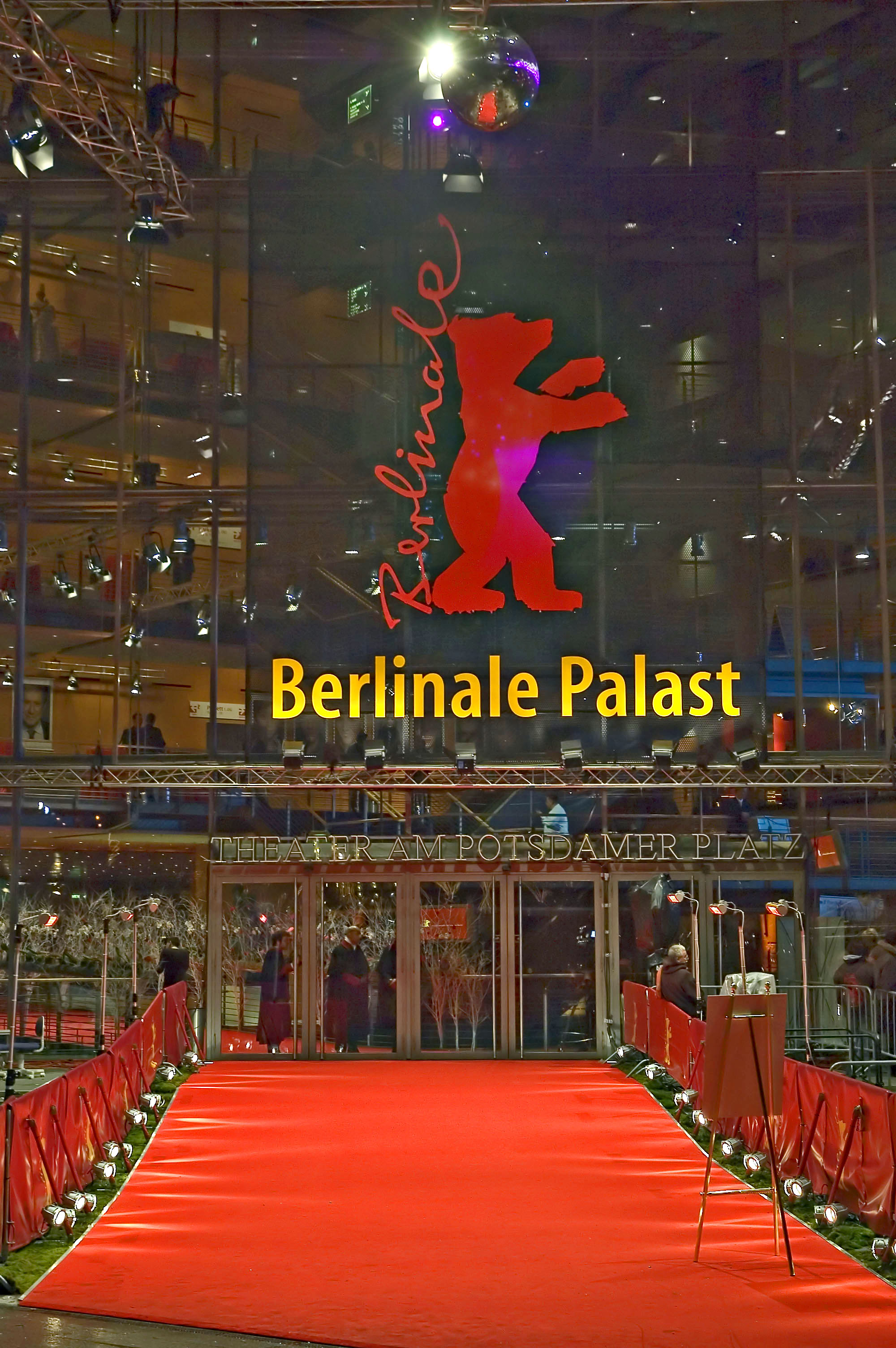 Berlinale Palace at the Berlin Film Festival 2007